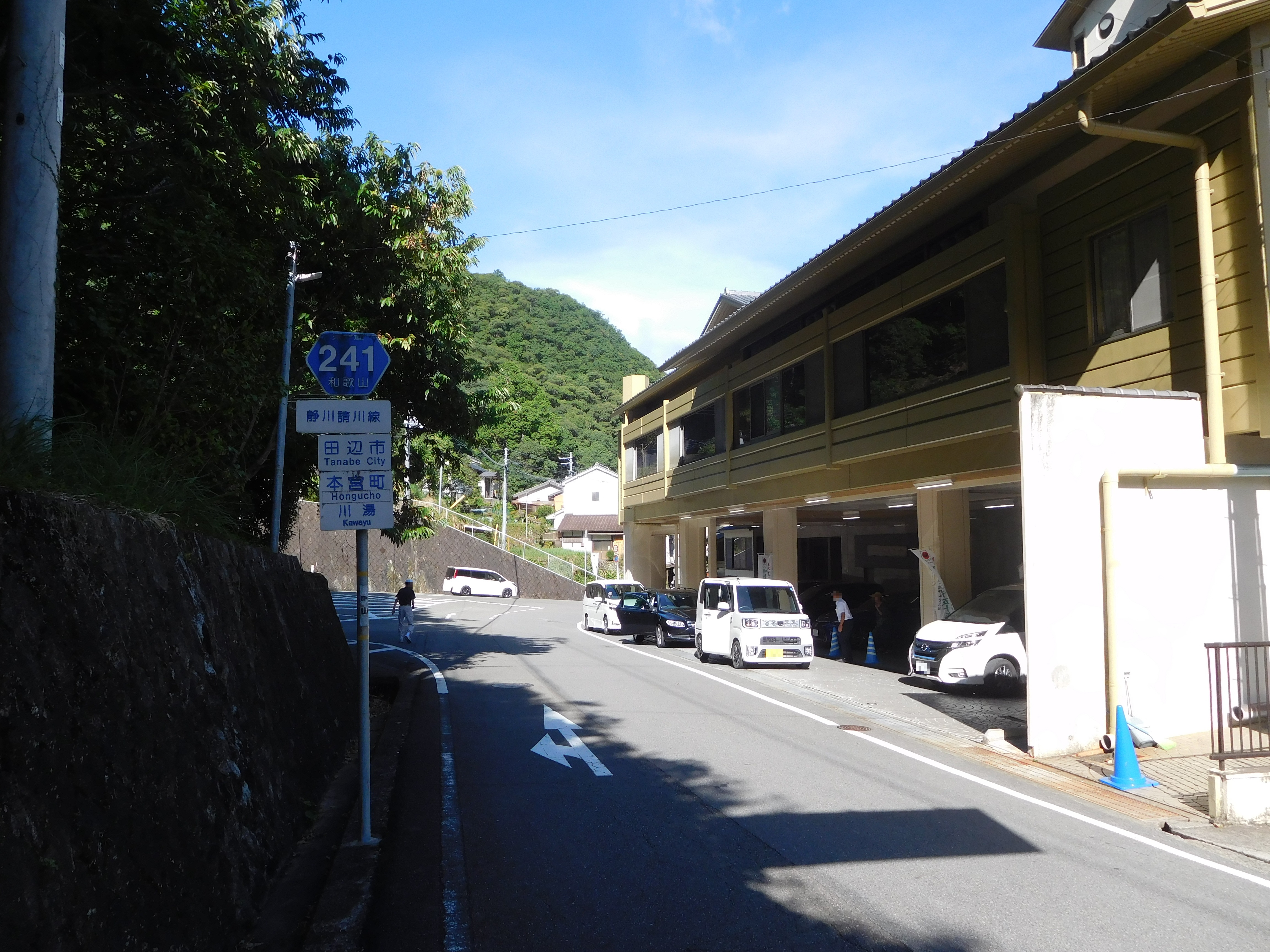 This is a scene of Wakayama prefectural road No.241 Shizukawa-Ukegawa Line in Hongucho-Kawayu, Tanabe, Wakayama, Japan.